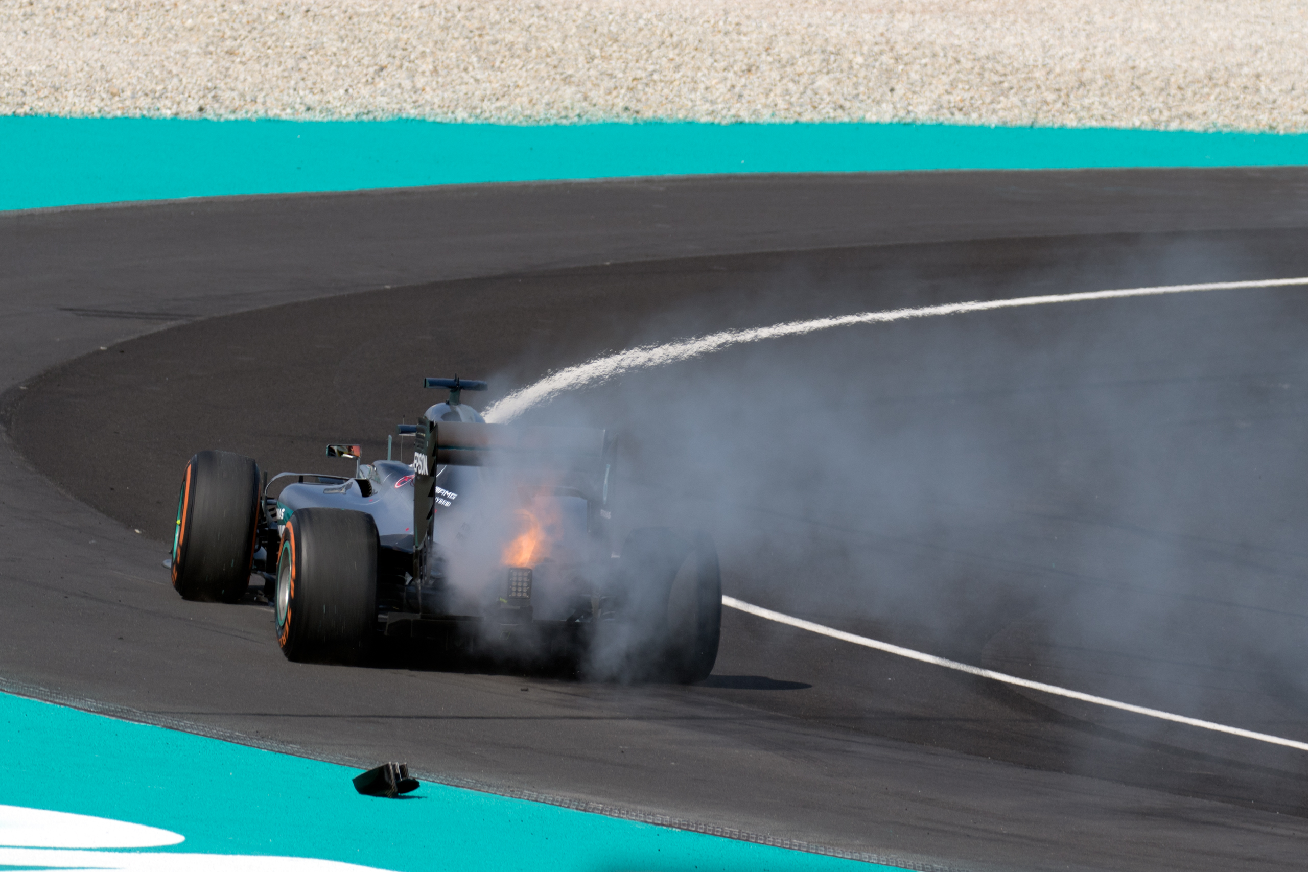 Formula One 2016 Rd.16 Malaysian GP: Lewis Hamilton (Mercedes), an engine failure.